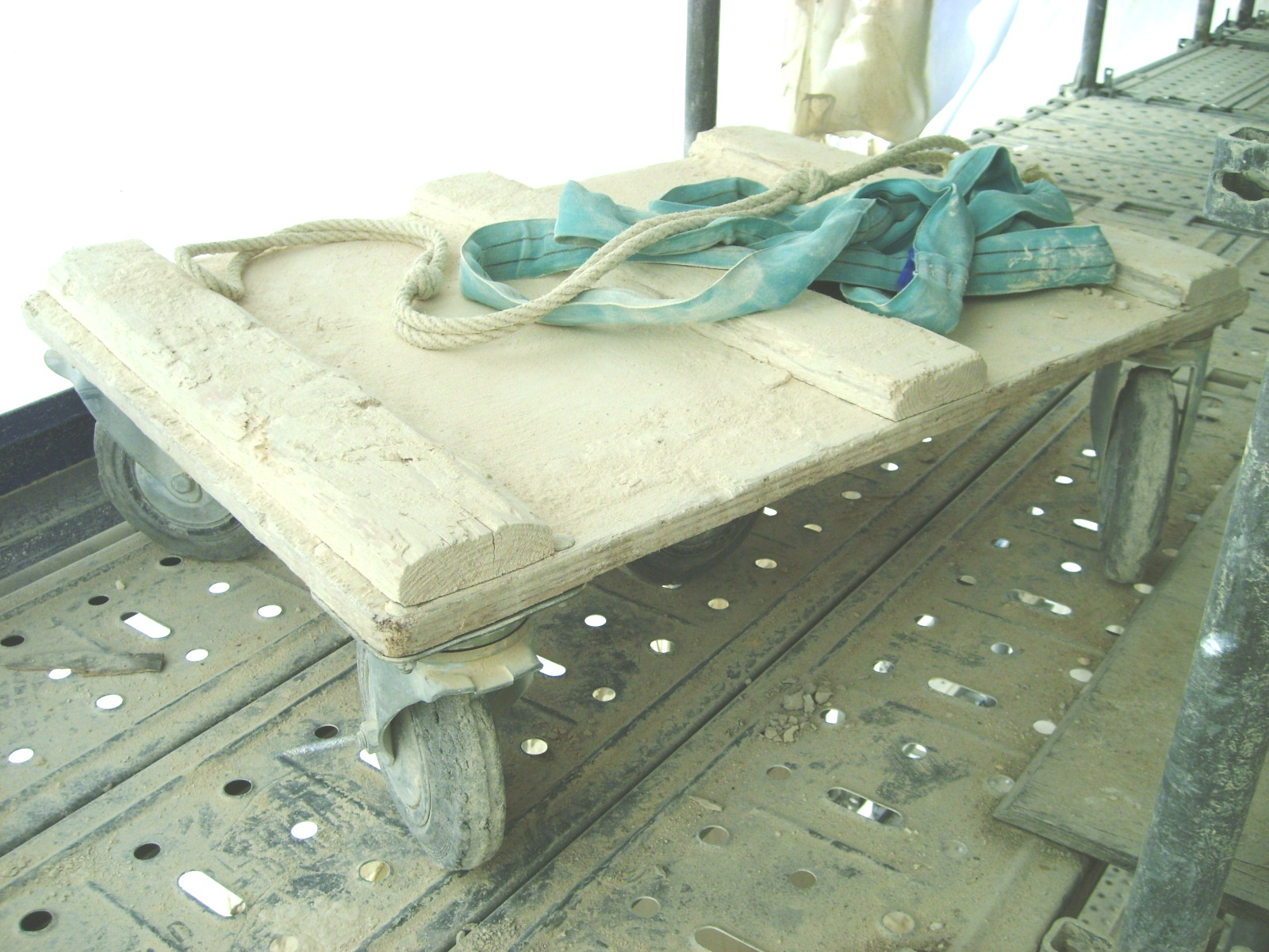 Stonemason's cart on scaffolding